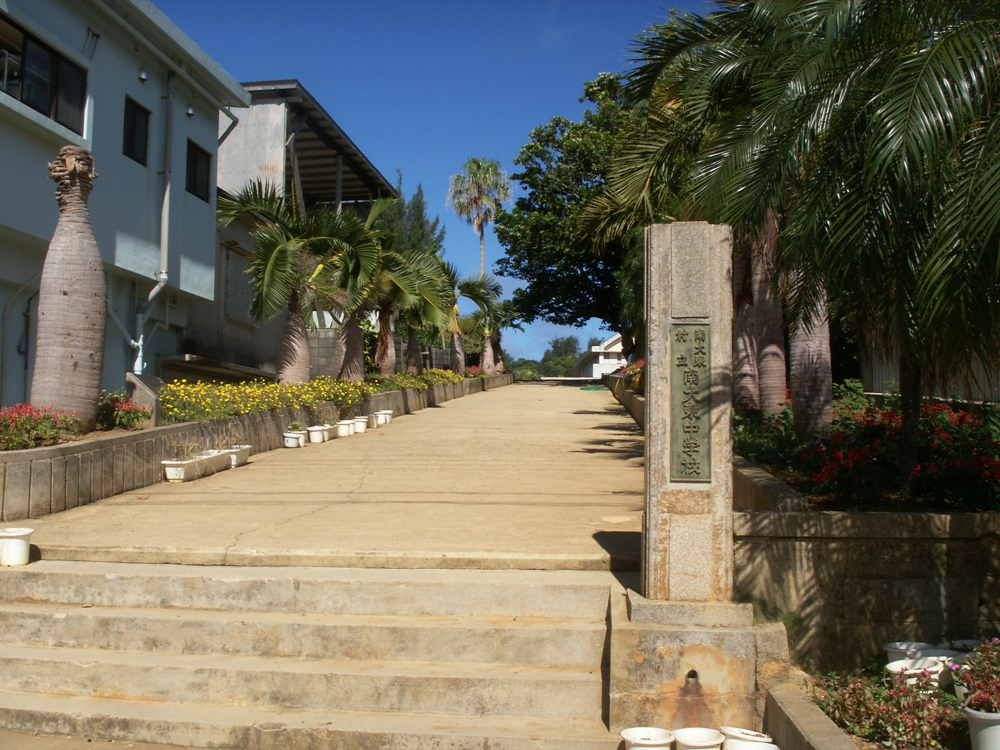 Minamidaitō Junior High School; as of 2007 the elementary school is co-located but separate, and high school students go to schools outside of Minamidaitō